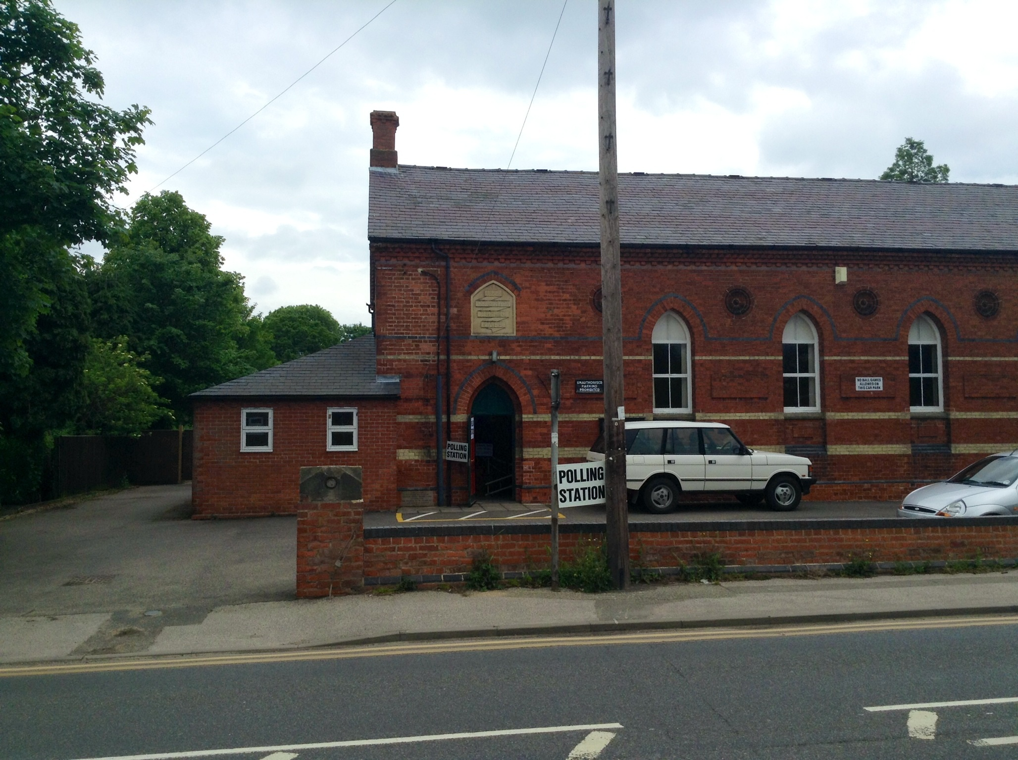 Gosberton Polling Station on the day of European Elections within the East Midlands on Thursday 22nd May 2014!